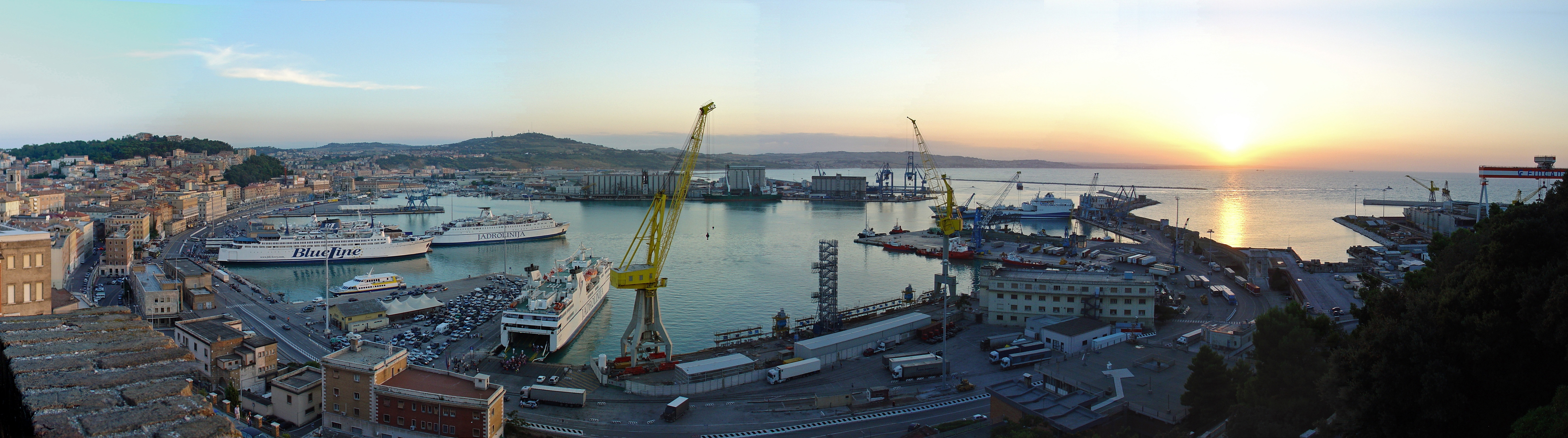 Ancona's Port at Sunset - Ancona, Italy